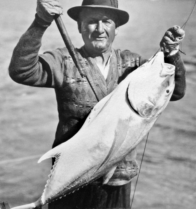 Mr W H Ryan, Commissioner of Police, caught a fine Albacore, Linne Passage. (An alternative name for Albacore is yellowtail amberjack). This photograph belongs to a group of 22 photographs depicting Mr Hastings Deering's fishing trip with Mr W H Ryan, Mr J W Davidson and Mr W J Sanderson, to Lindeman Island and nearby islands.)